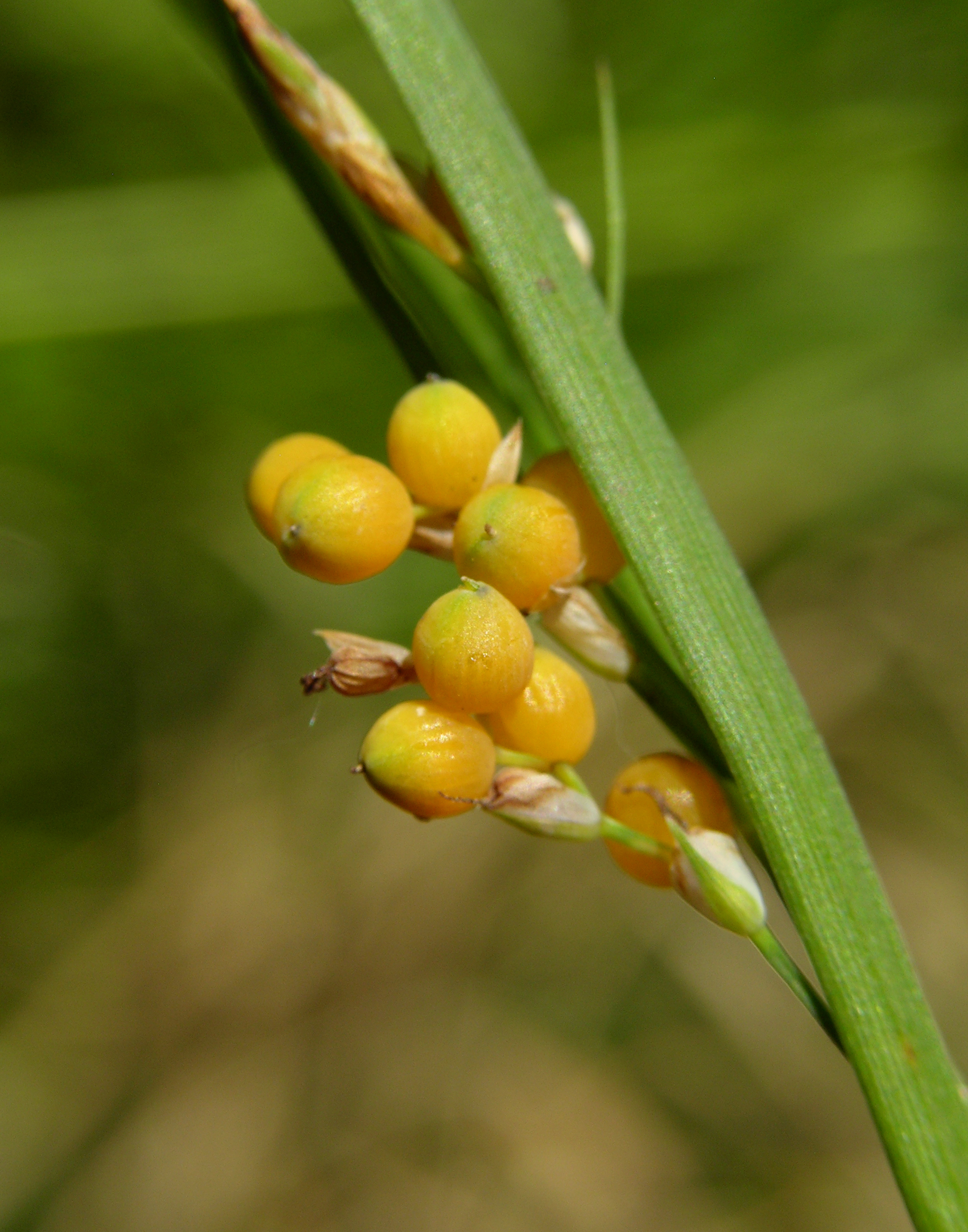 Here with namesake golden hue